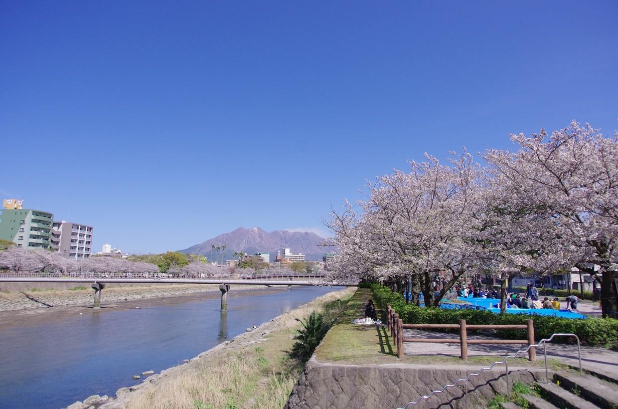 Koutsuki River - Cherry trees are in full bloom in Kagoshima City, Kagoshima, Japan